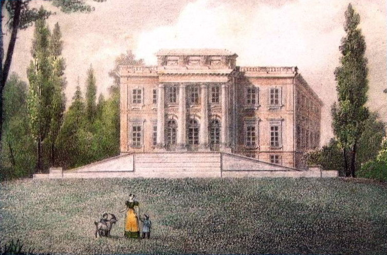 The castle of Wannegem-Lede, near Oudenaarde in Belgium (19th century lithograph)